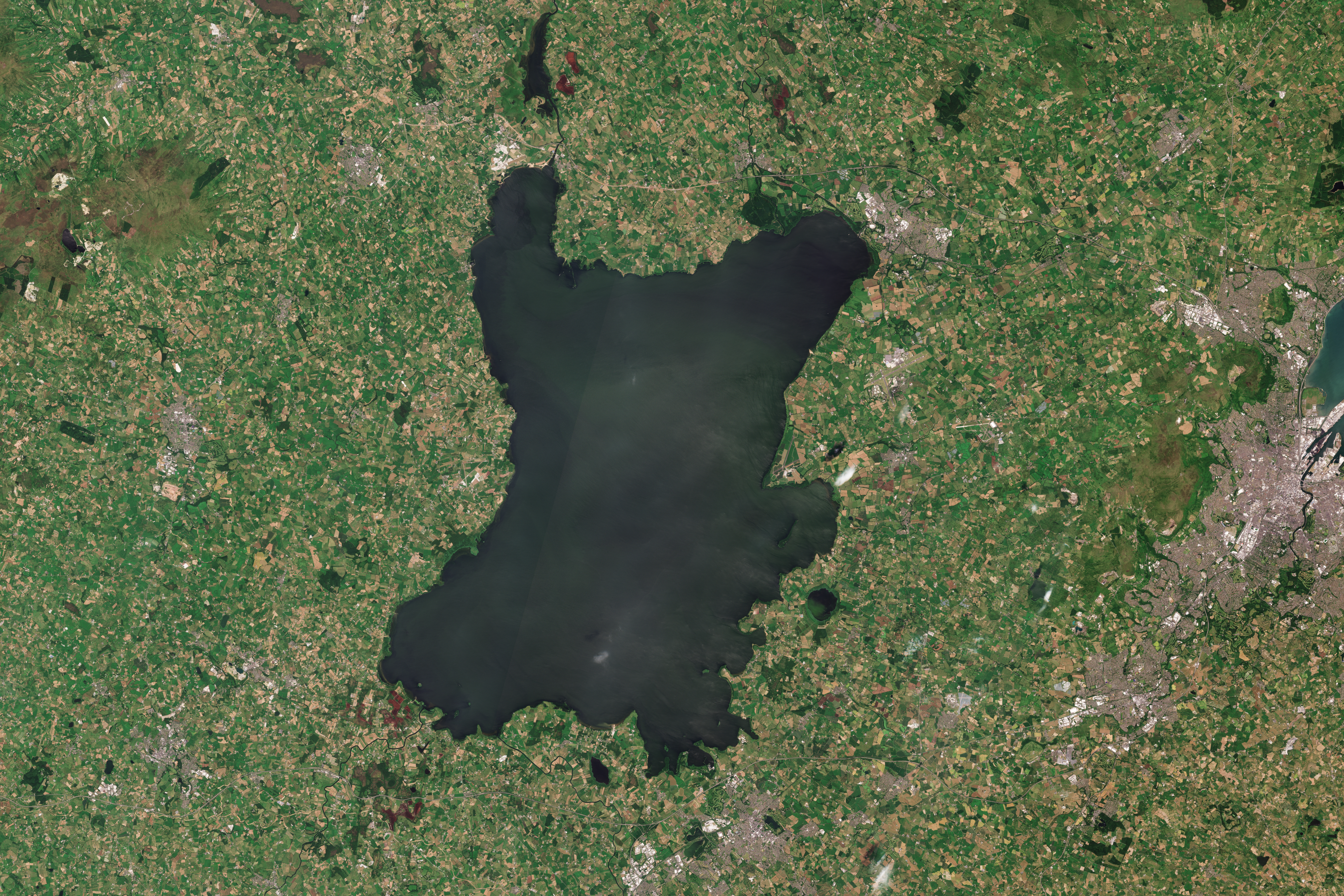 Date: 2018-06-30 Sensor: MSI on Sentinel-2B Resolution: 10m RGB Composites: True color, Band 4-3-2